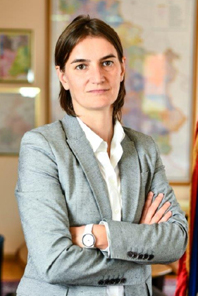 Ana Brnabić (1975), Serbian politician